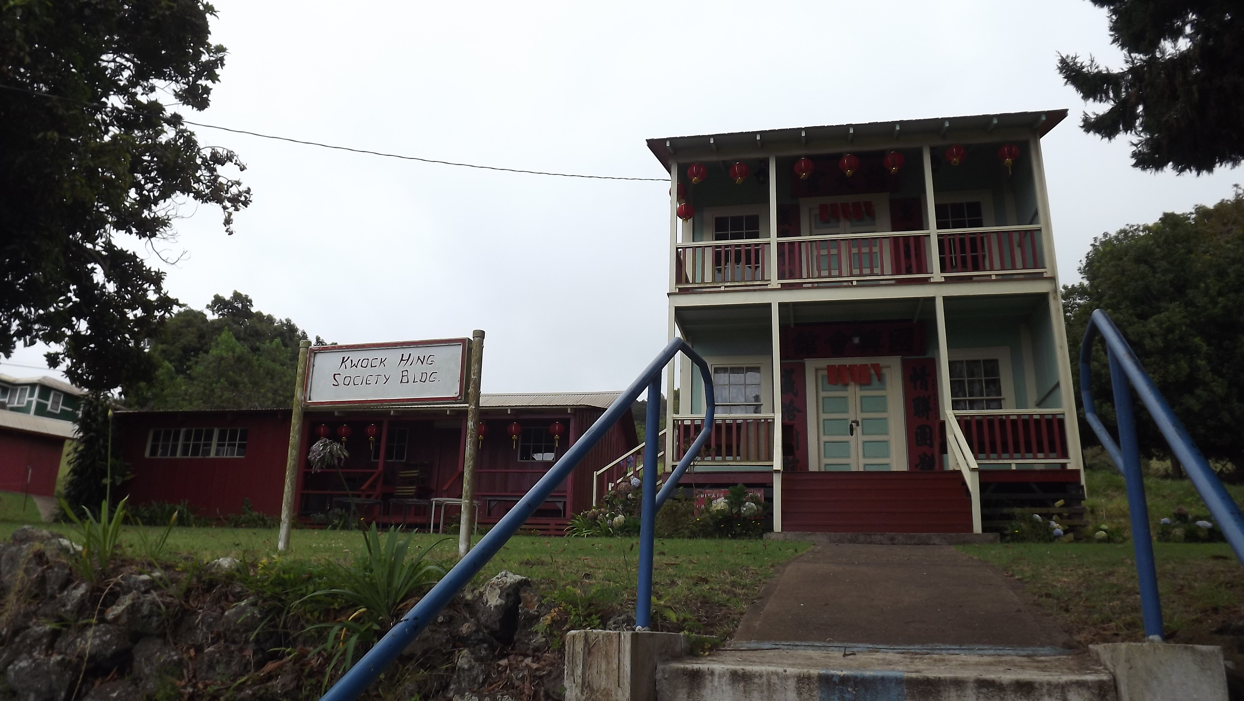 Kwock Hing Society Hall buildings. Main Hall and auxiliary building.